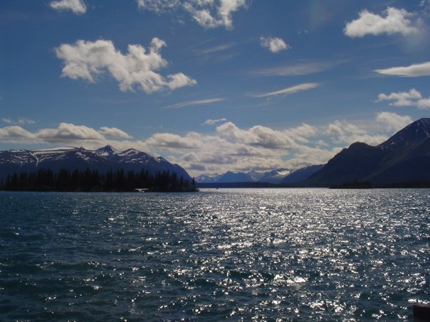 Picture of Atlin Lake from the harbourside of Atlin, BC.